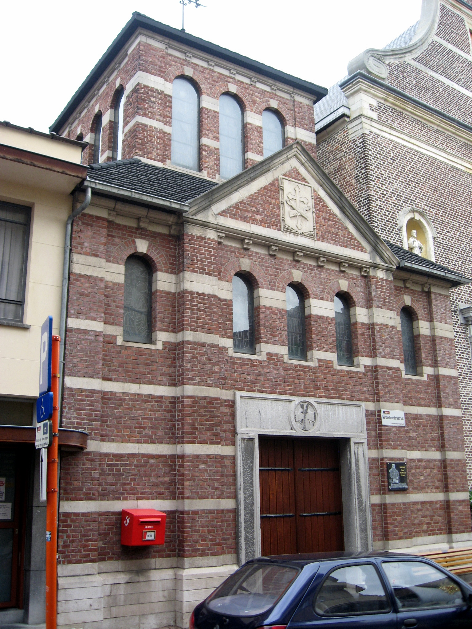 Mortuary chapel of Valentinus Paquay in Hasselt, Limburg, Belgium